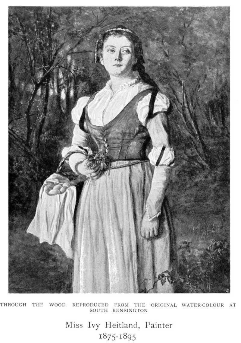 1905 print after page of Women painters of the world, from the time of Caterina Vigri, 1413-1463, to Rosa Bonheur and the present day, by Walter Shaw Sparrow, The Art and Life Library, Hodder & Stoughton, 27 Paternoster Row, London